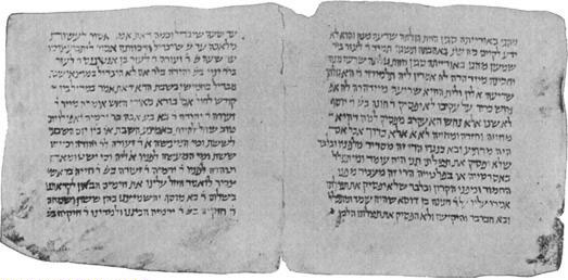 A page from a medieval Jerusalem Talmud manuscript. Found in the Cairo Genizah. From the 1901-1906 Jewish Encyclopedia, now in the public domain